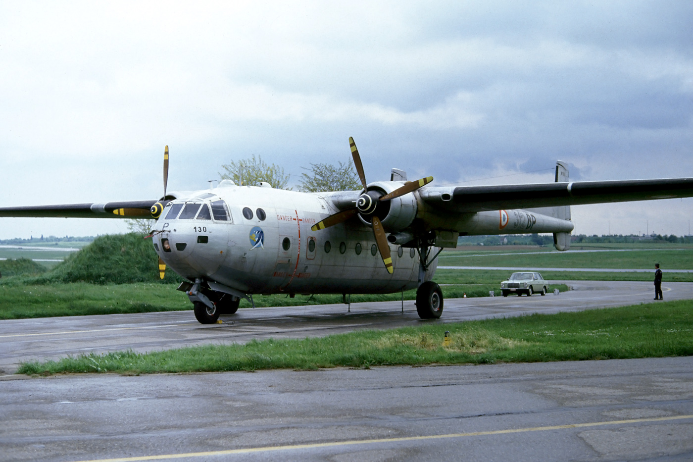 Airshow Bierset (Belgium), 28 May 1983. In the 1980s the Patrouille de France was always supported by a Noratlas. This one is from GI 312, based at Salon de Provence. The plane was parked in a shelter area that was not accessible by the airshow public. Luckily for us, spotters, a Belgian officer was prepared to give us a ride in his Mercedes.